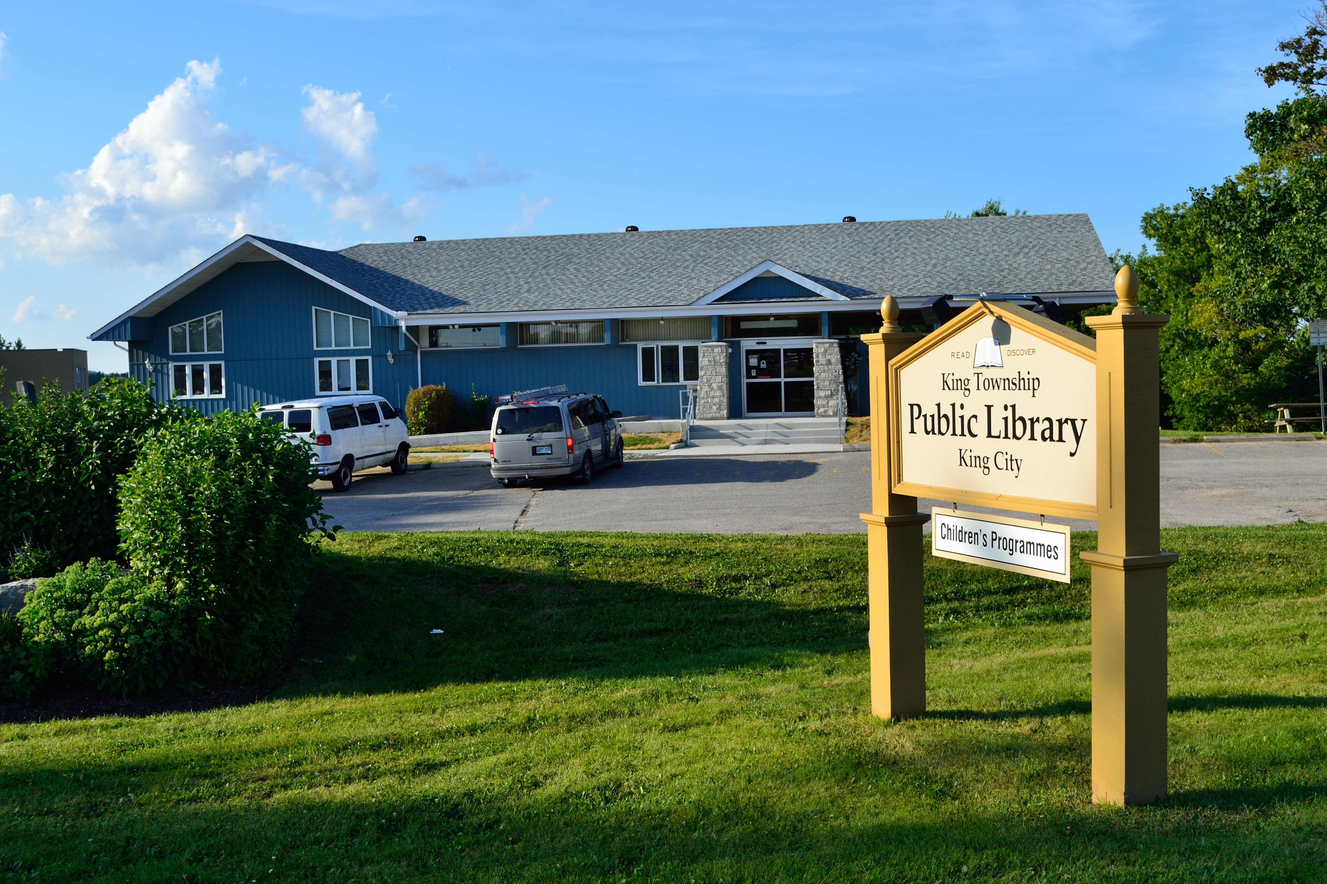 King City Library (Address: 1970 King Rd, King City Ontario, Canada L7B 1A6) - King Township Public Library System in King Township, Ontario. This building was demolished in 2018.